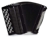 Chromatic button accordion